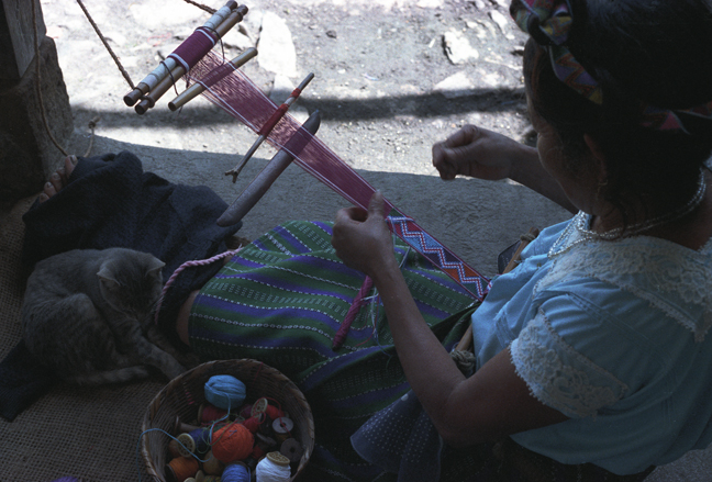 Jacaltek Maya backstrap weaving a brocaded hair sash.